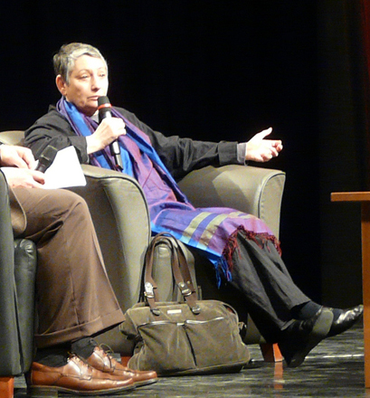 16th International Book Festival, 23 – 26 April 2009. Millenáris, Budapest. The Guest of Honour Author Russian writer, Ljudmila Ulickaja.